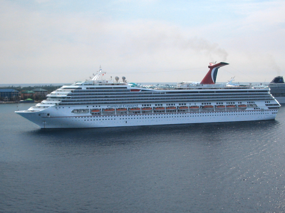 A photograph of the Carnival Conquest cruise ship at port in Grand Cayman, January 5, 2006. Taken by NormanEinstein, January 5, 2006.